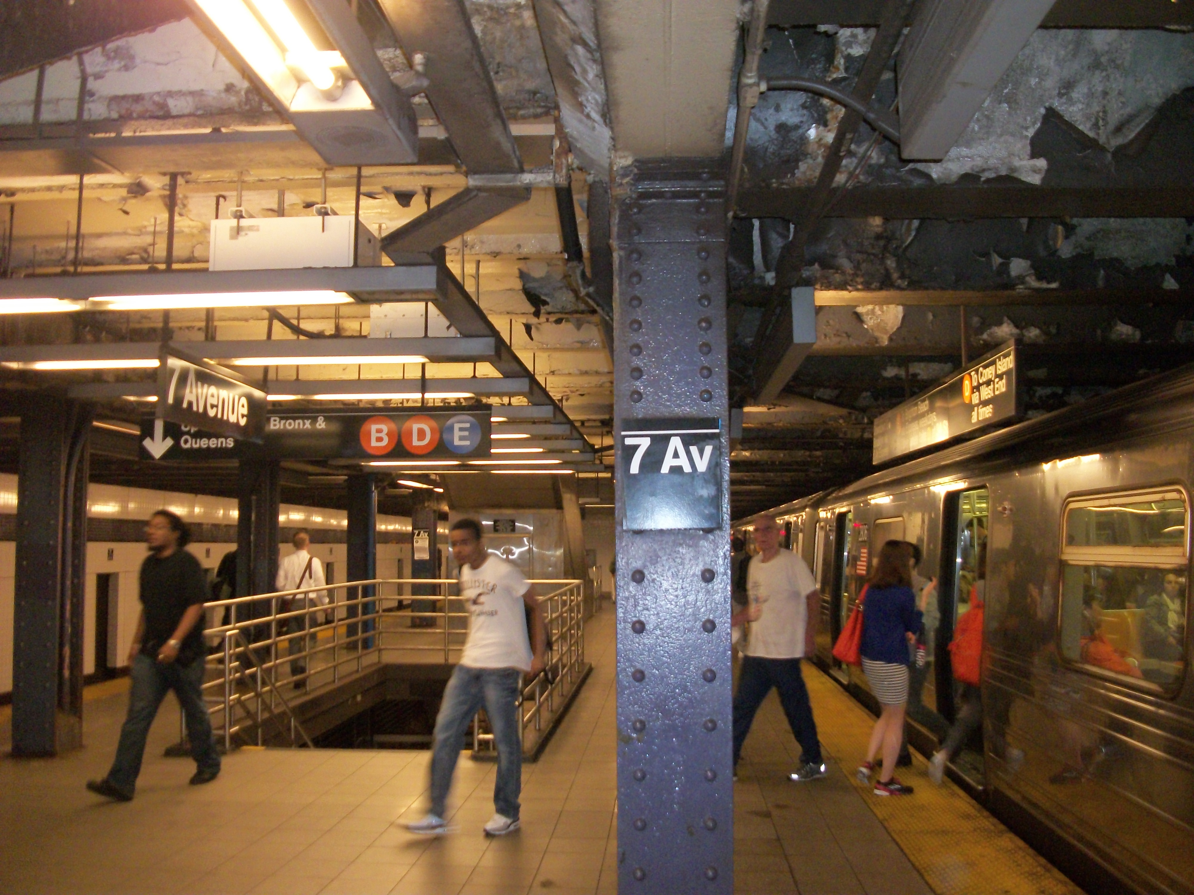 Seventh Avenue IND Queens Boulevard and Sixth Avenue Line. Details to come later.